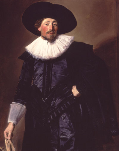 Captain Michiel de Wael